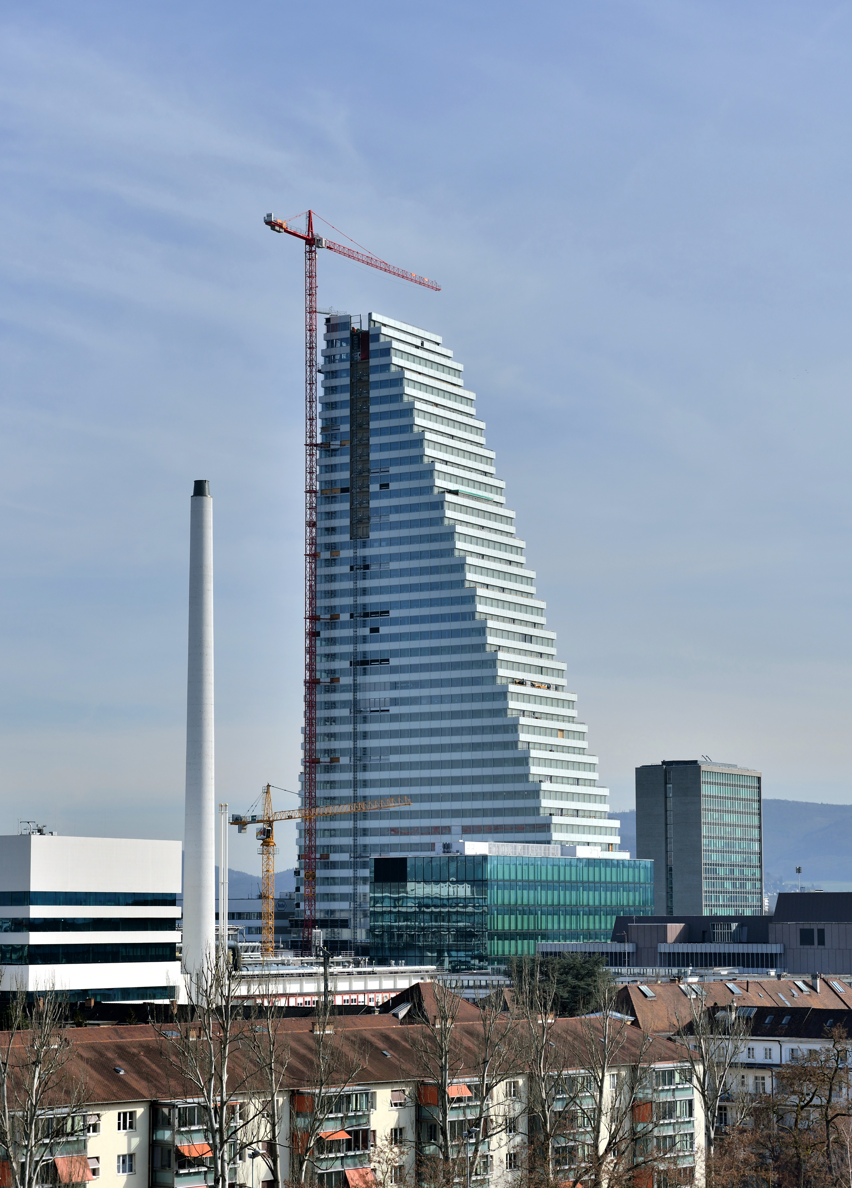 Roche Tower during construction on 8th march 2015